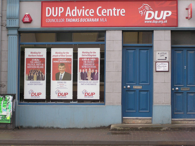 DUP Advice Centre, Omagh. It is located at Dublin Road.